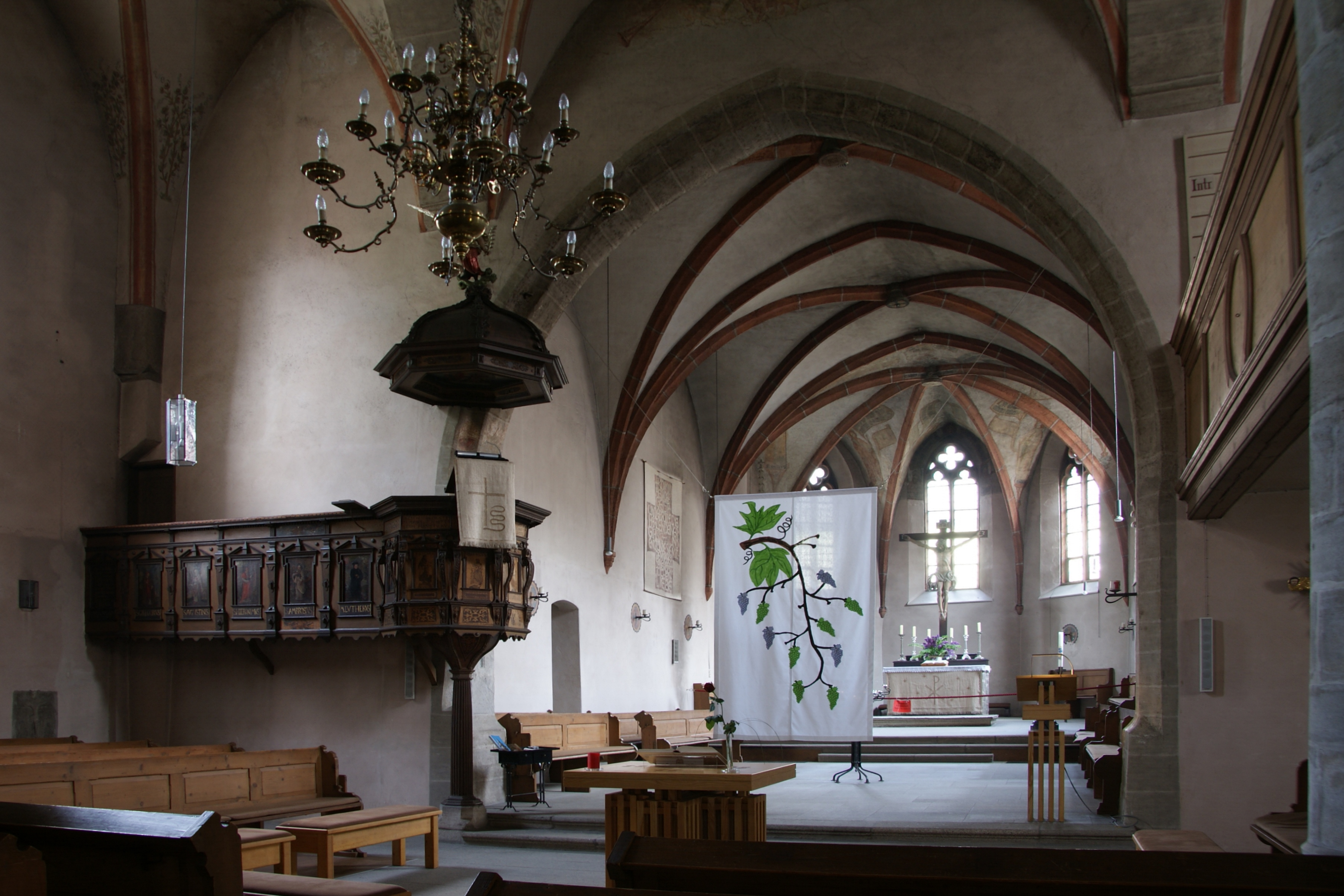 Marktredwitz, church St.-Bartholomäus